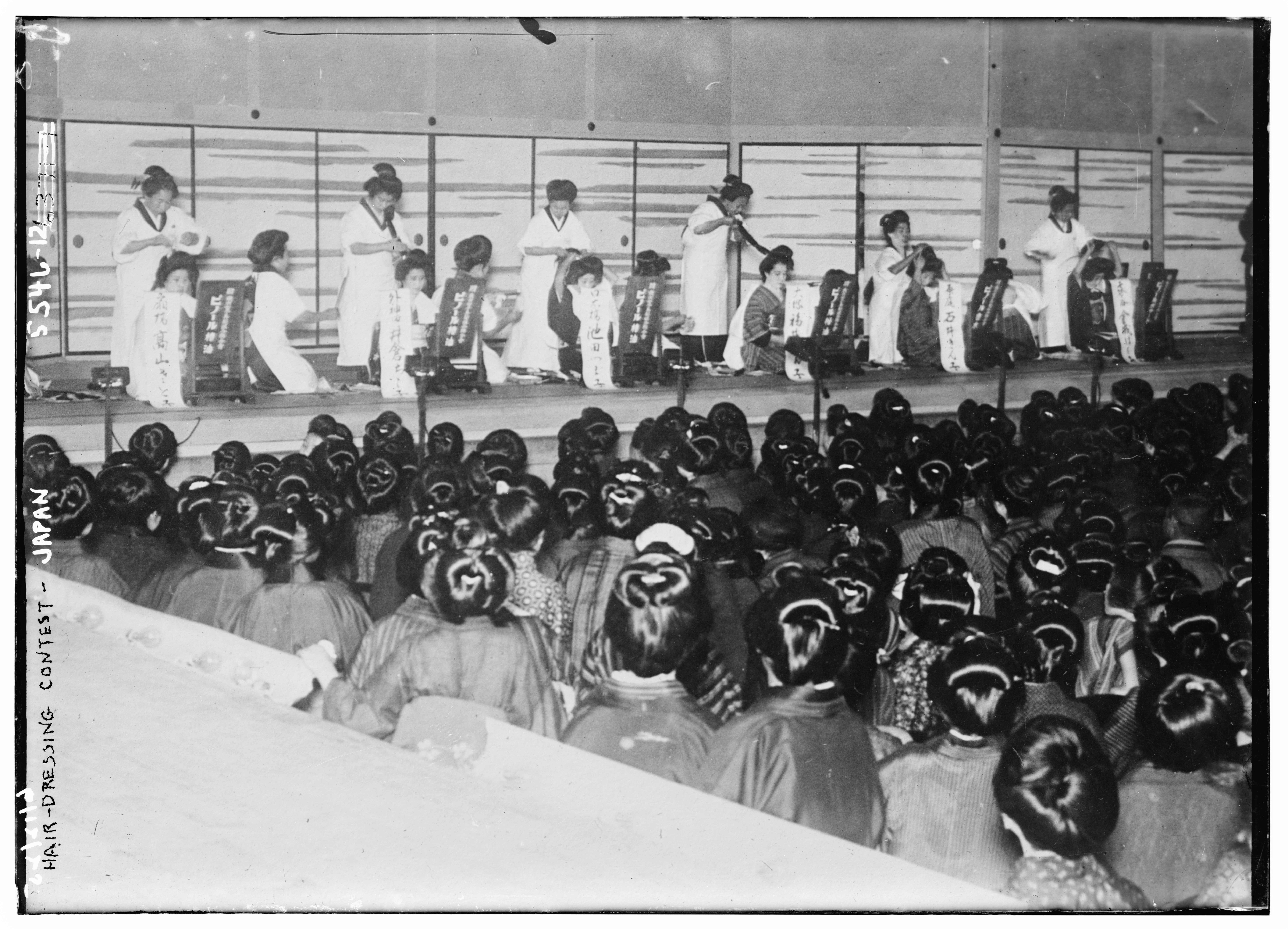 Title: Hair dressing contest, Japan Abstract/medium: 1 negative : glass ; 5 x 7 in. or smaller.